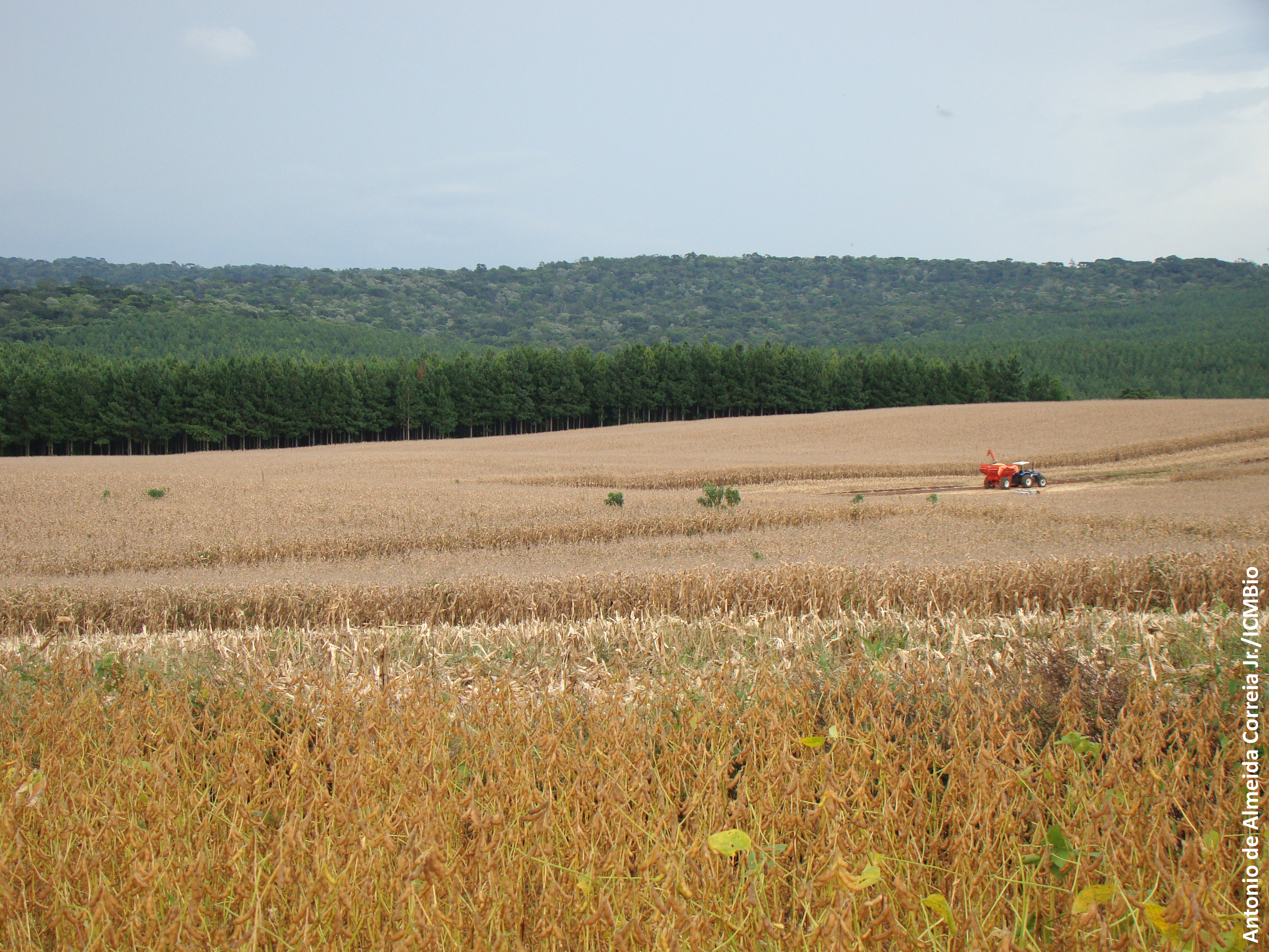 Agricultura nos limites da ESEC Mata Preta.